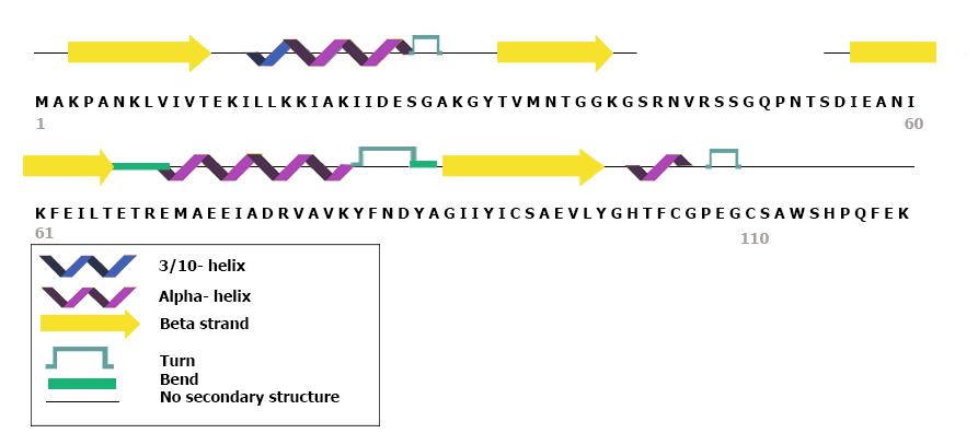 Aminoacid sequence and secondary structure of SbtB protein. This figure has been done based on the information of SbtB's PDB (Protein Data Bank) webpage (503P).